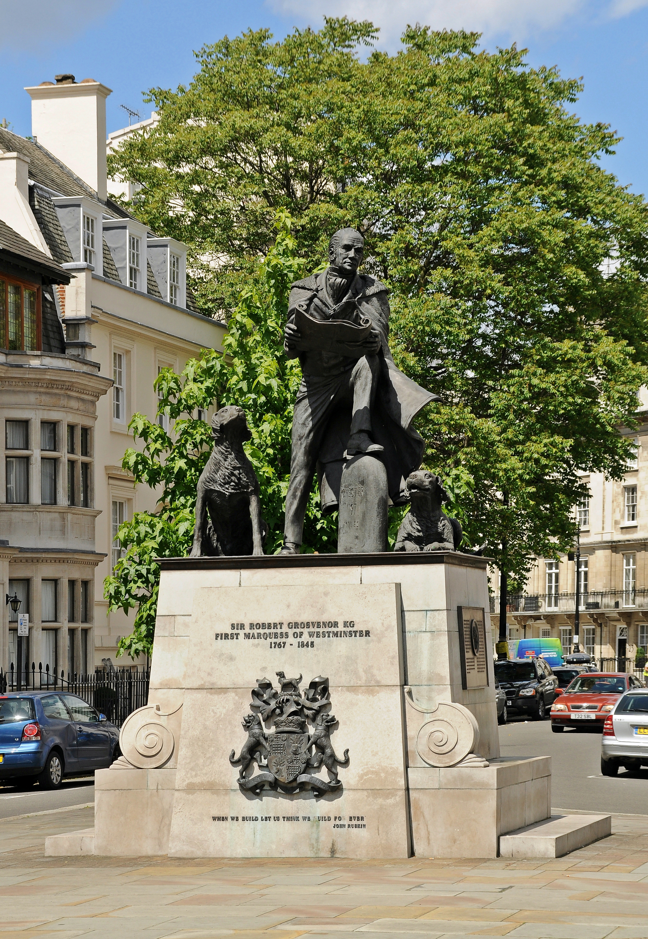 Statue of Robert Grosvenor, 1st Marquess of Westminster located in Wilton Crescent, City of Westminster, London. By Jonathan Wylder. 1998.